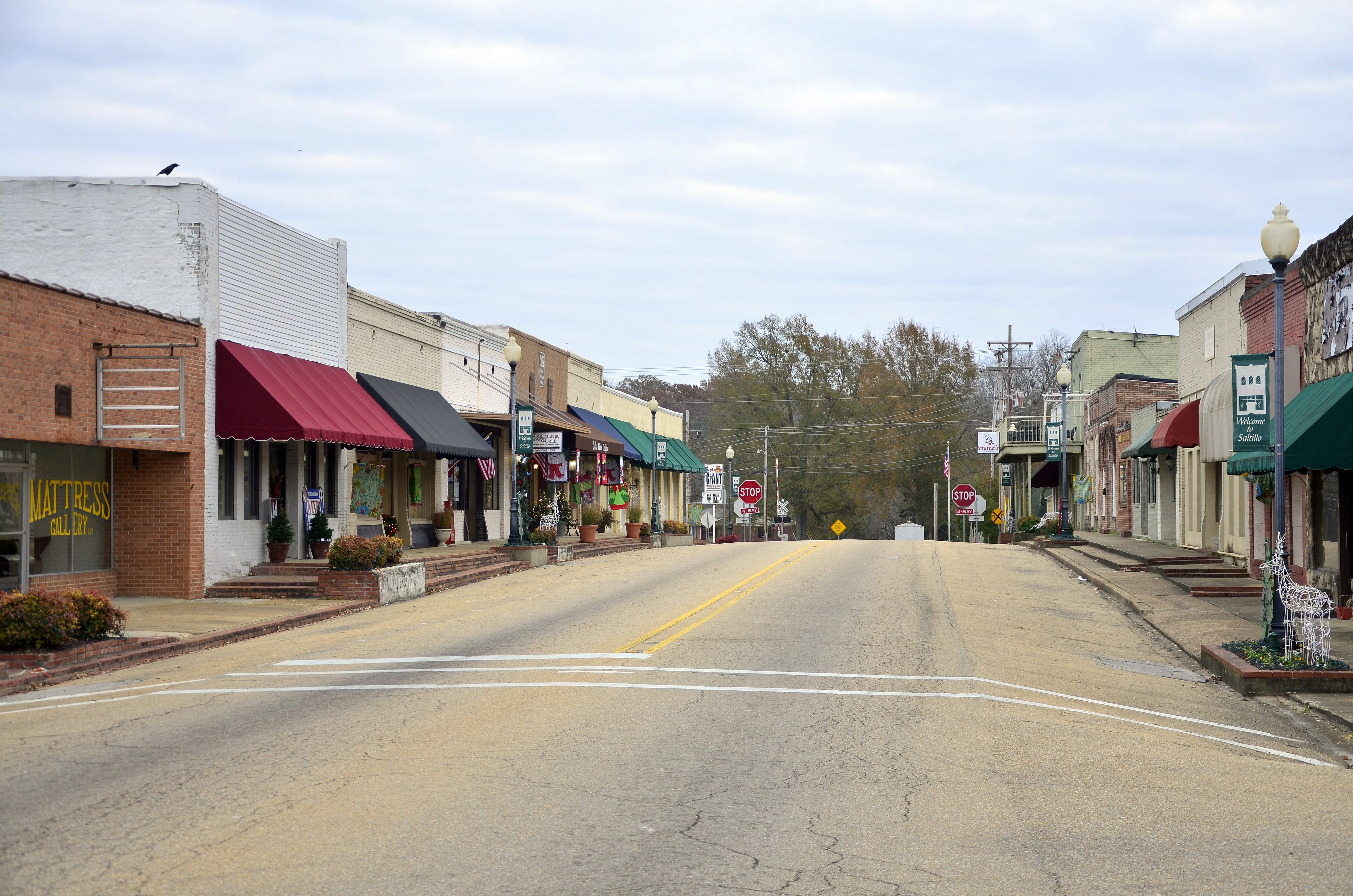 East Mobile Street in Saltillo, Mississippi.